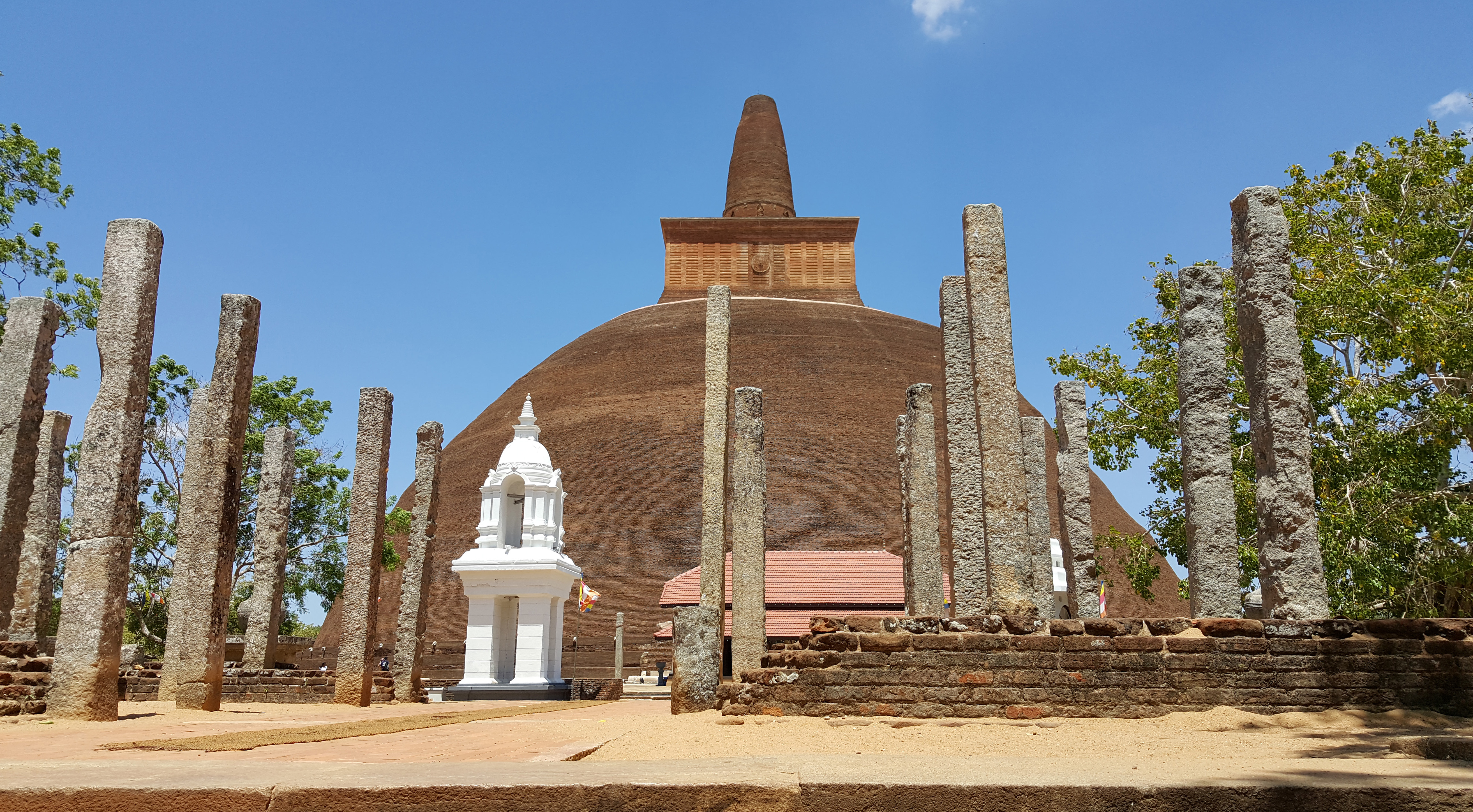 Abhayagiri Vihāra was a major monastery site of Mahayana, Theravada and Vajrayana Buddhism, located in Anuradhapura, Sri Lanka. It is one of the most extensive ruins in the world and one of the most sacred Buddhist pilgrimage cities in the nation.